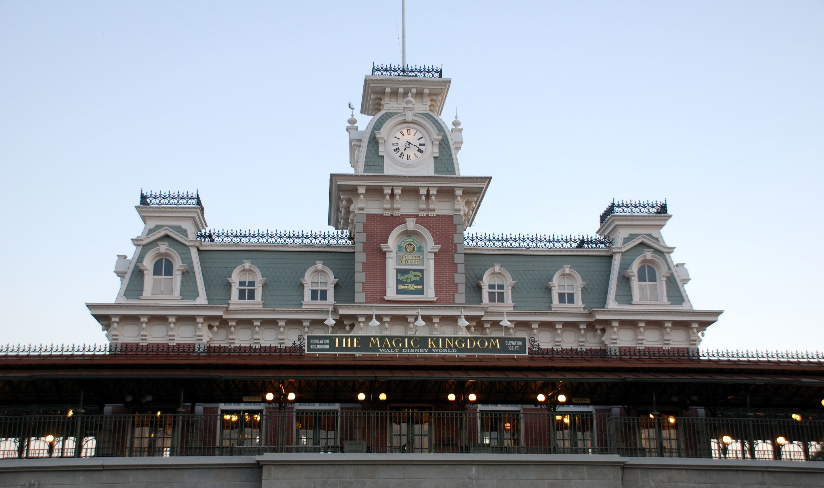 Walt Disney World - Main Street Railroad Station